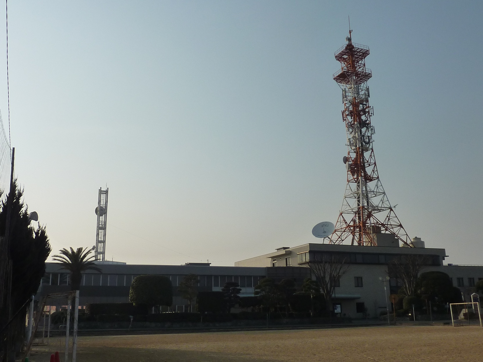 Headquarters of TV Kumamoto (TKU, JOZH-(D)TV) It is located in Kita-ku, Kumamoto City, Japan.